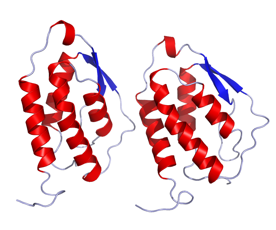 Crystal structure of GM-CSF as published in the Protein Data Bank (PDB: 2GMF)